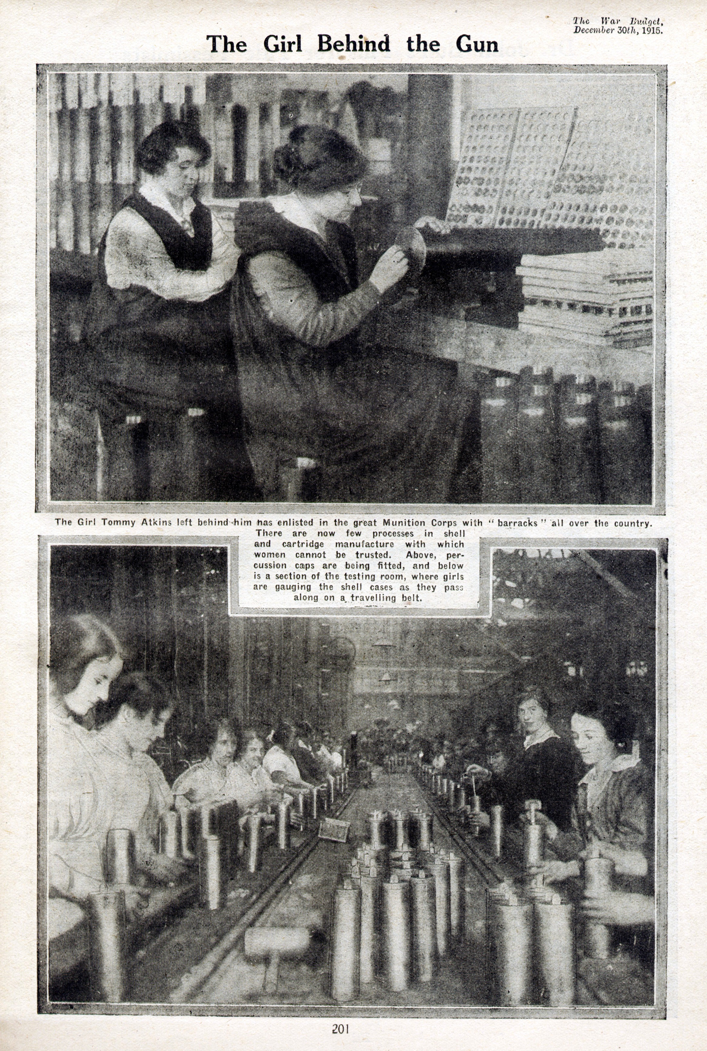 This page appeared in the Dec. 30, 1915 issue of the english war magazine "The War Budget" and shows women in English munition factories. Above: Percussion caps are being fitted. Below: final inspection of shell cases on a travelling belt